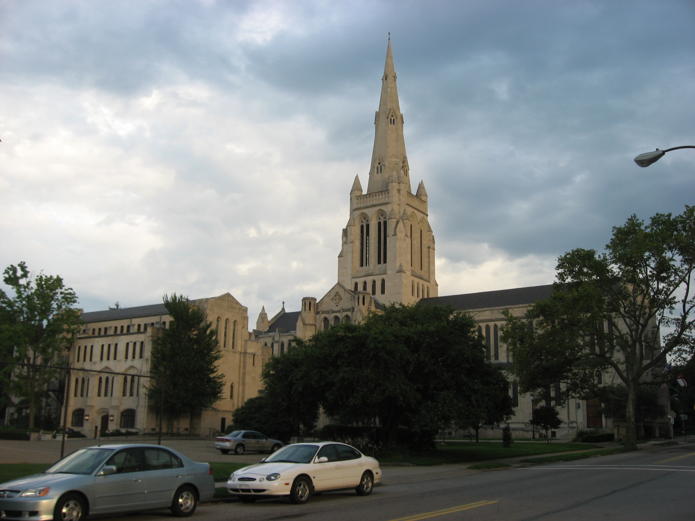 View of Calvary Episcopal Church at 315 Shady Ave. in Shadyside, a neighborhood of Pittsburgh, Pennsylvania, United States. The church is listed on the National Register of Historic Places.